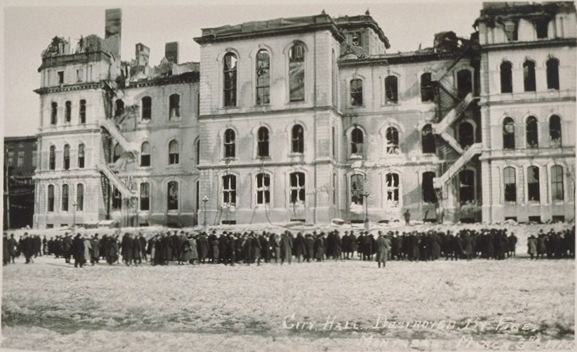 Montreal City Hall, destroyed by fire, March 3 rd 1922